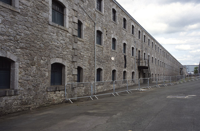 Grade I listed East Ropery: 1763-71, but gutted by fire in 1812; rebuilt 1813-17 to the designs of Edward Holl.